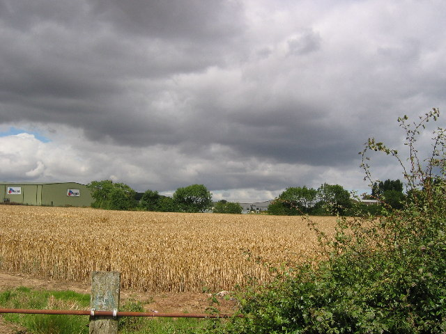 Catfoss Lane Industrial Estate, Brandesburton, East Riding of Yorkshire, England.The A165 runs NS on the west edge of the grid square. This view is to the industrial estate which is in the top NE corner of this mixed industry and Agriculture area.